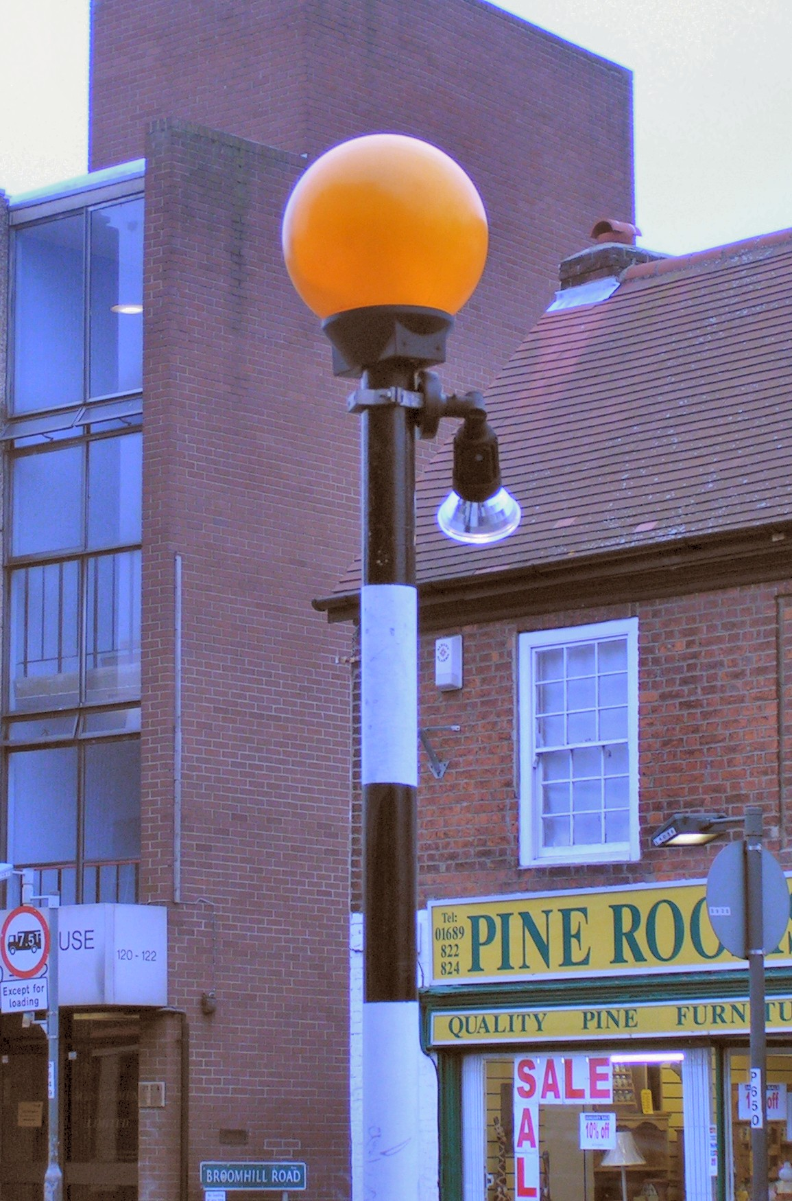 Belisha Beacon, Orpington High Street.